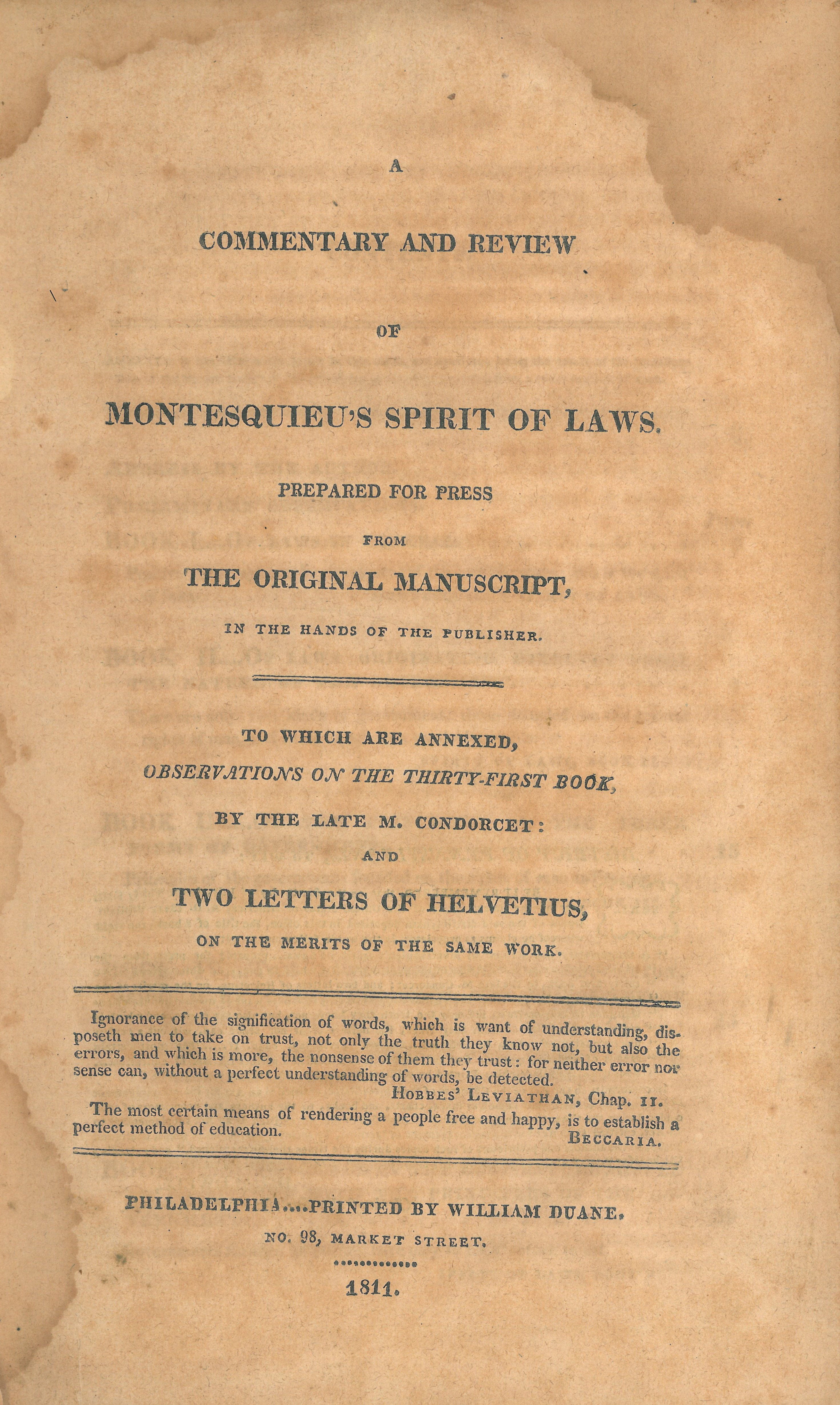 Title page of Antoine Louis Claude Destutt, comte de Tracy; Thomas Jefferson, transl. (1811) A Commentary and Review of Montesquieu's Spirit of Laws. Prepared for Press from the Original Manuscript, in the Hands of the Publisher. To which are Annexed, Observations on the Thirty-first [sic: Twenty-ninth] Book, by the Late M. [Jean-Antoine-Nicolas de Caritat Condorcet, marquis de] Condorcet: and Two Letters of [Claude Adrien] Helvetius, on the Merits of the Same Work, Philadelphia, Penn.: [Thomas Jefferson]; printed by William Duane. No. 98, Market Street OCLC: 166602192. The text on the title page is as follows: "A / COMMENTARY AND REVIEW / OF / MONTESQUIEU'S SPIRIT OF LAWS. / PREPARED FOR PRESS / FROM / THE ORIGINAL MANUSCRIPT, / IN THE HANDS OF THE PUBLISHER. "TO WHICH ARE ANNEXED, / OBSERVATIONS ON THE THIRTY-FIRST BOOK, / BY THE LATE M. CONDORCET: / AND / TWO LETTERS OF HELVETIUS, ON THE MERITS OF THE SAME WORK. "Ignorance of the signification of words, which is want of understanding, dis- / poseth men to take on trust, not only the truth they do not know, but also the / errors, and which is more, the nonsense of them they trust : for neither error nor / sense can, without a perfect understanding of words, be detected. HOBBES' LEVIATHAN, Chap. II. "The most certain means of rendering a people free and happy, is to establish a perfect method of education. BECCARIA. "PHILADELPHIA....PRINTED BY WILLIAM DUANE. / NO. 98 MARKET STREET / 1811."